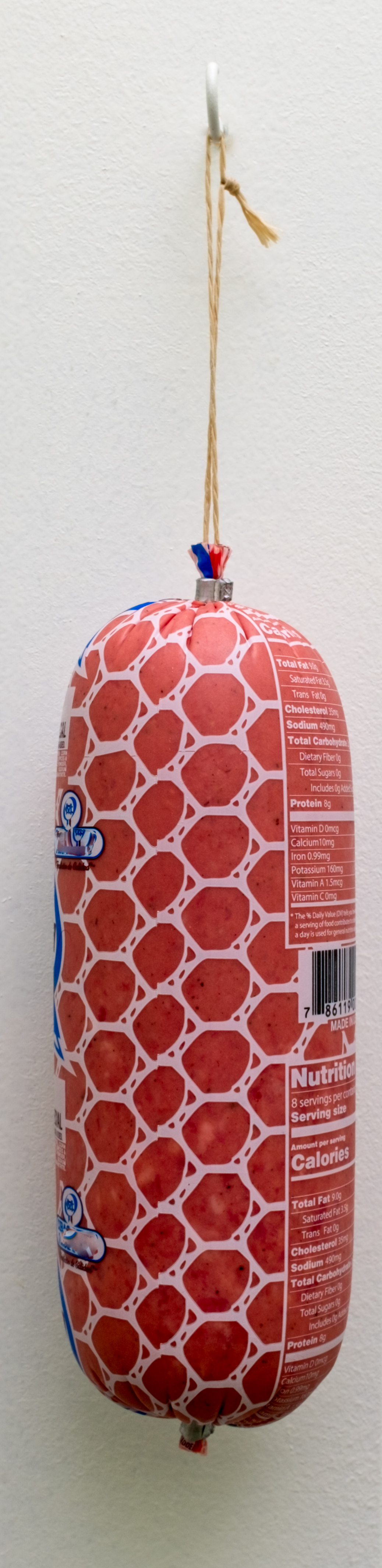 A Dominican salami, entire, hanging. This one weighs 1 pound (una libra)